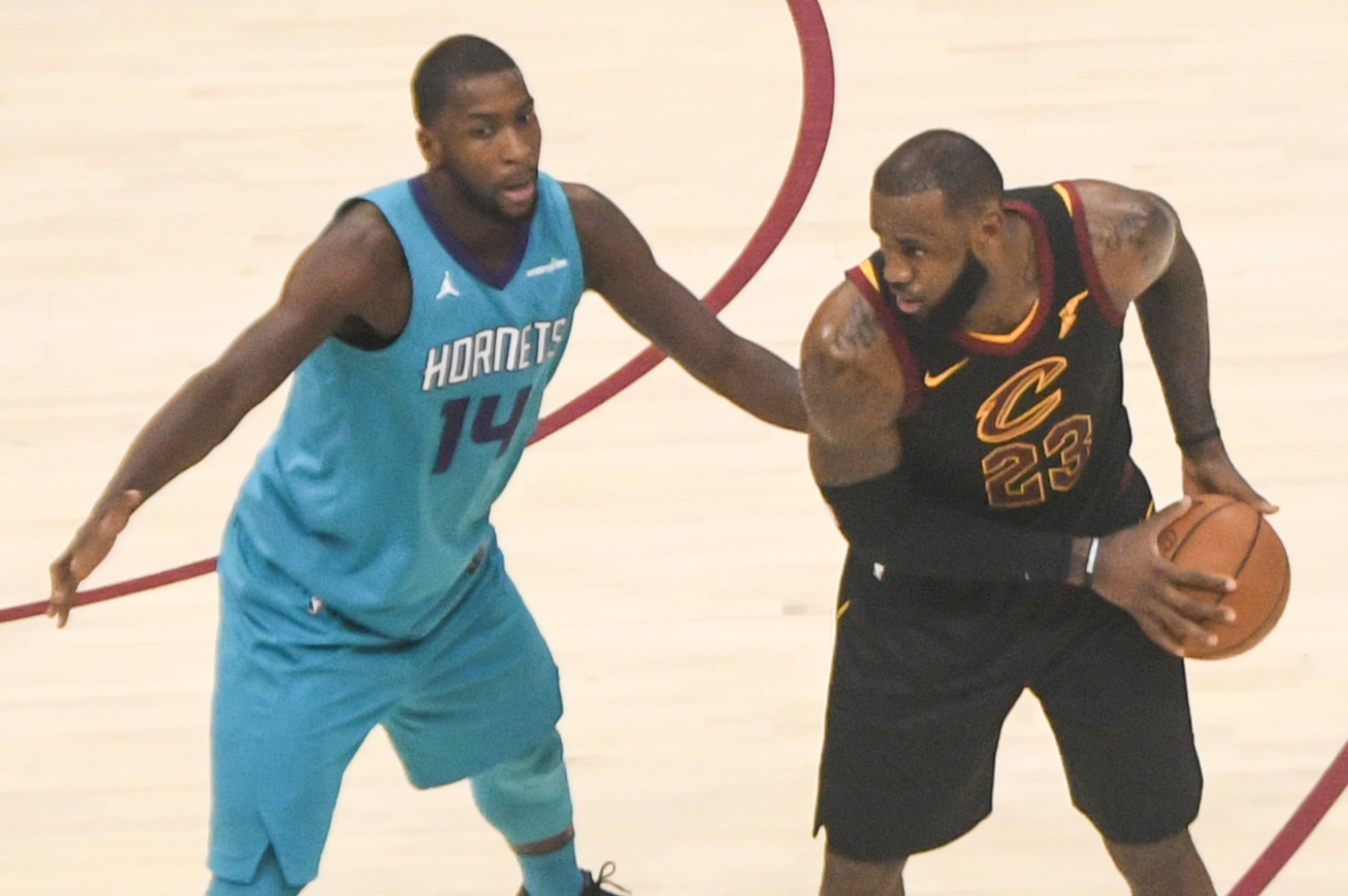 LeBron James guarded by Michael Kidd-Gilchrist